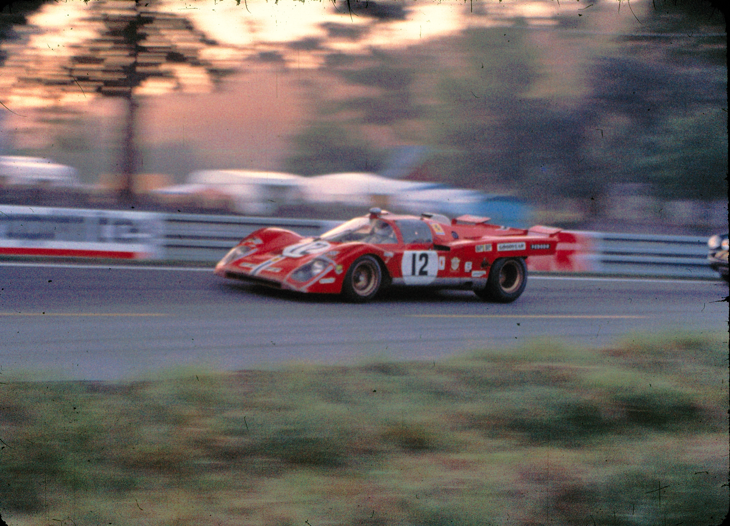 Ferrari 512 M N°12 North America Racing Team Technique : Catégorie : Sport Moteur : V12 Ferrari 4993 cm3 Pneus : Goodyear Pilotes : Sam Posey Tony Adamovicz Résultats : Course : 3ème Distance : 4922,000 km Moyenne : 205,08 km/h